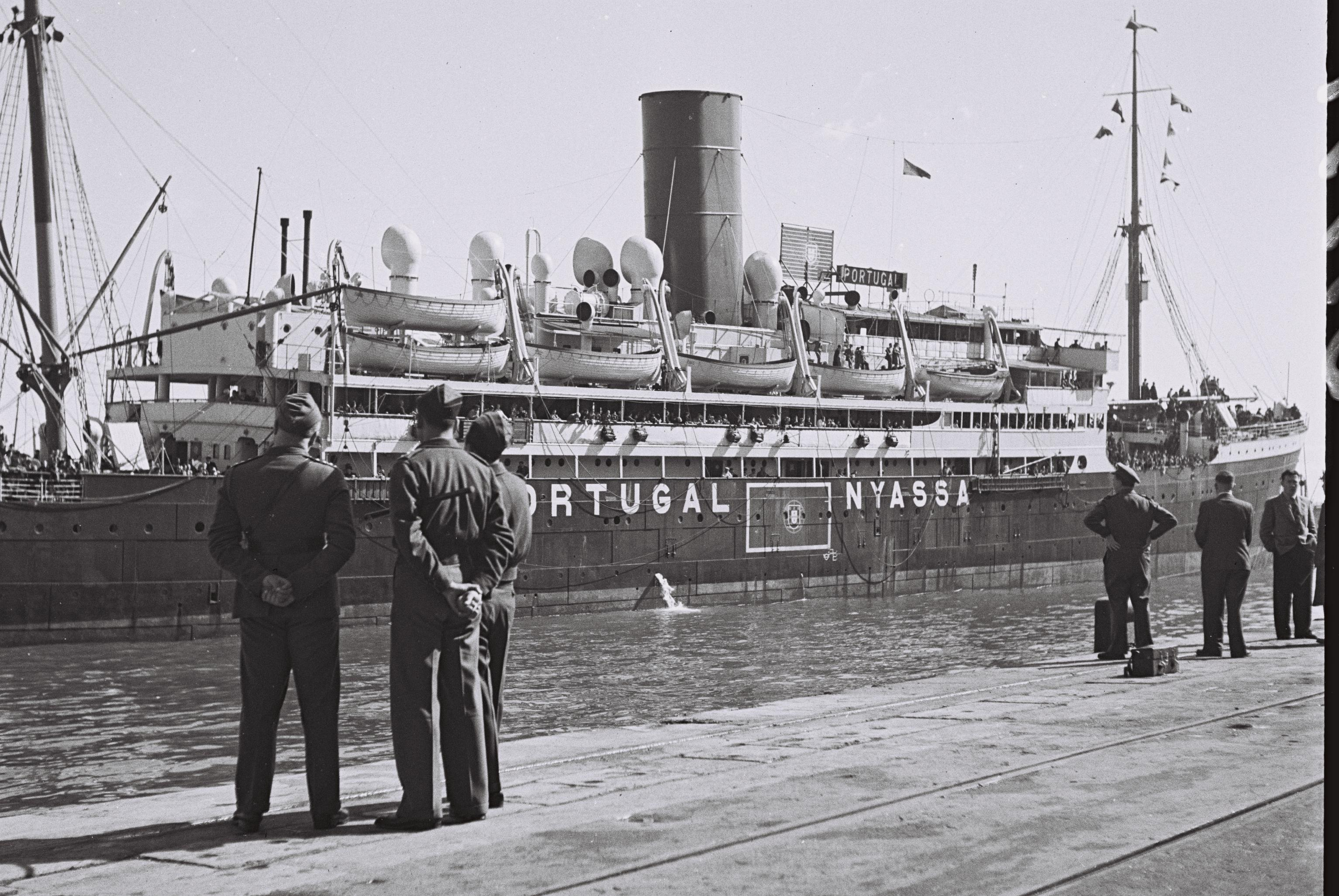 THE PORTUGUESE SHIP "NYASSA" BRINGING NEW EUROPEAN IMMIGRANTS VIA LISBON TO HAIFA PORT. עולים חדשים מגיעים באונייה פורטוגזית לנמל חיפה.